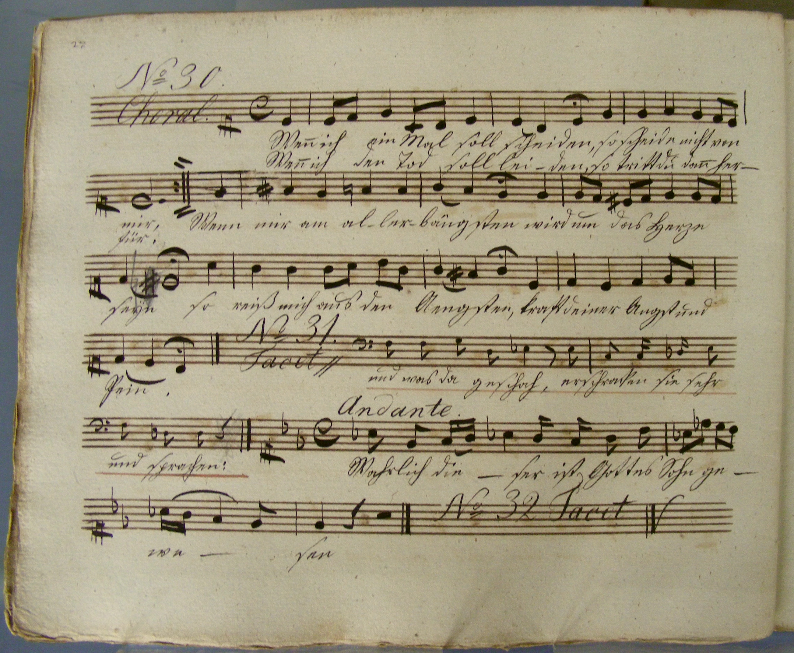 Johann Sebastian Bach / Felix Mendelssohn Bartholdy: Alto voice no. 8, choir I, no. 90 Chorale "Wenn ich einmal soll scheiden". Hand-written choir part, ca. 1829.